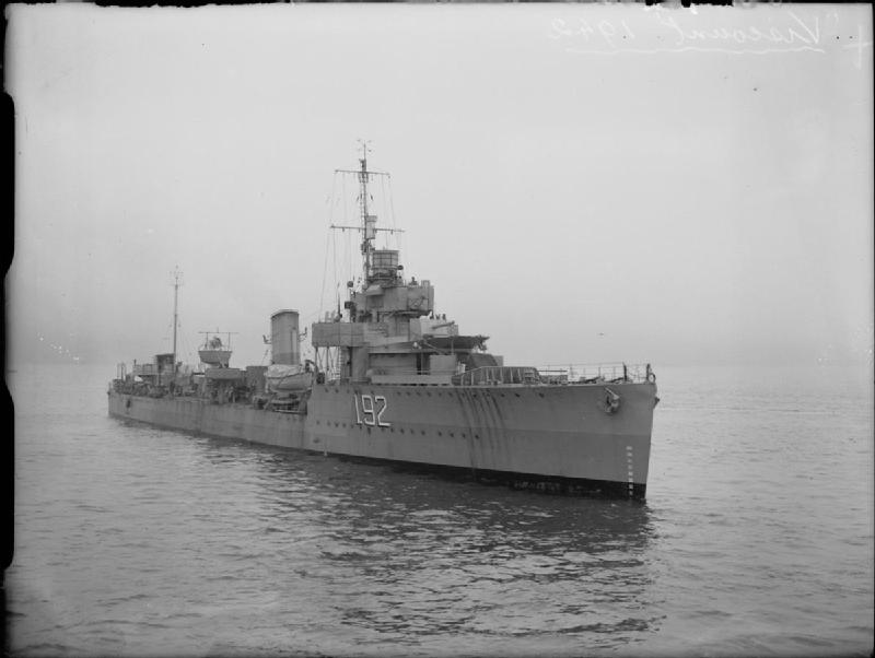 HMS Viscount Stationary.